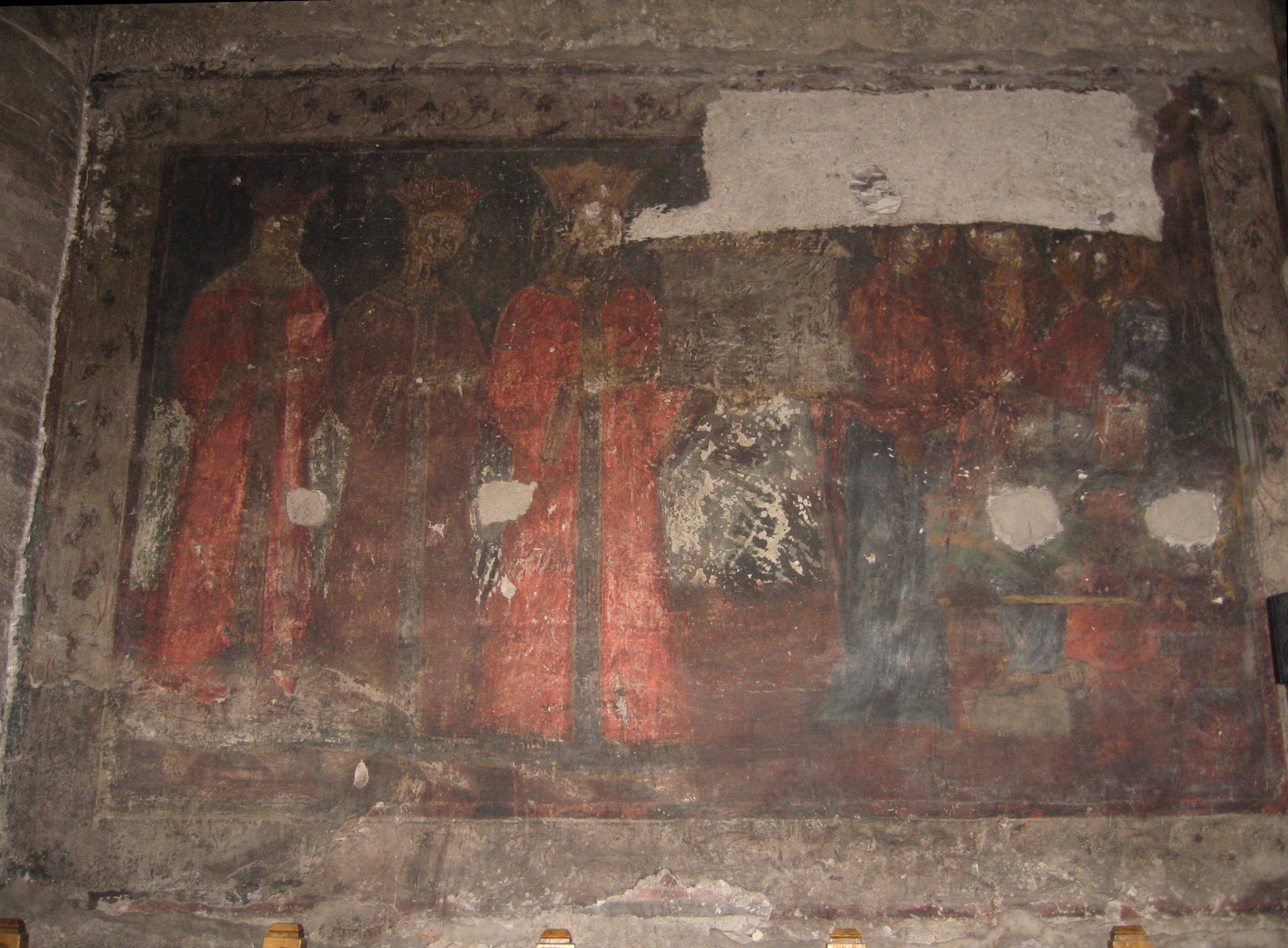 Mănăstirea Galata